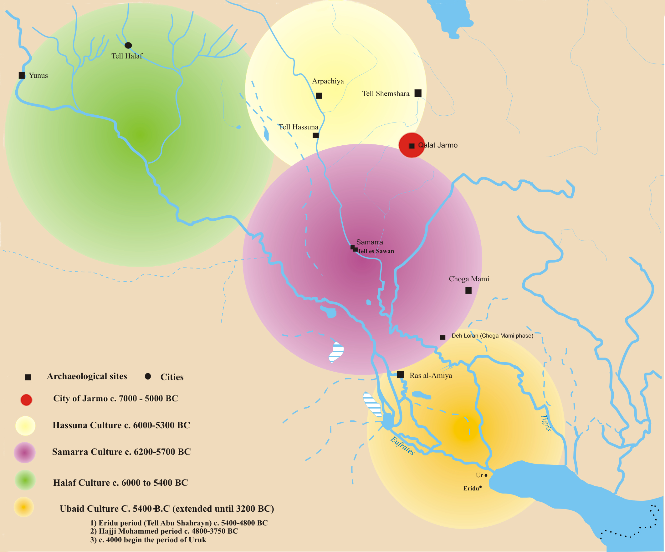 Jarmo to Ubaid 7000-4500